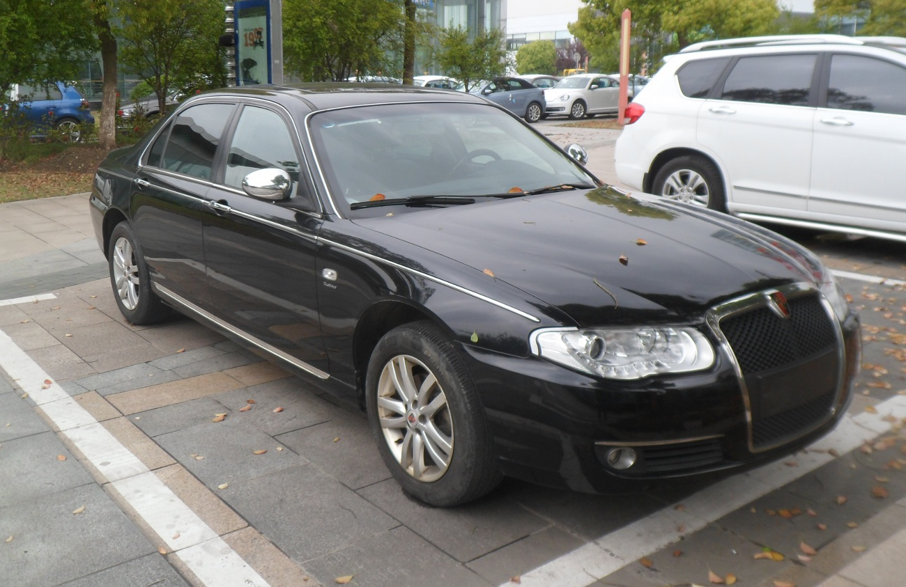 Roewe 750 facelift photographed in Anting, Shanghai municipality, China.